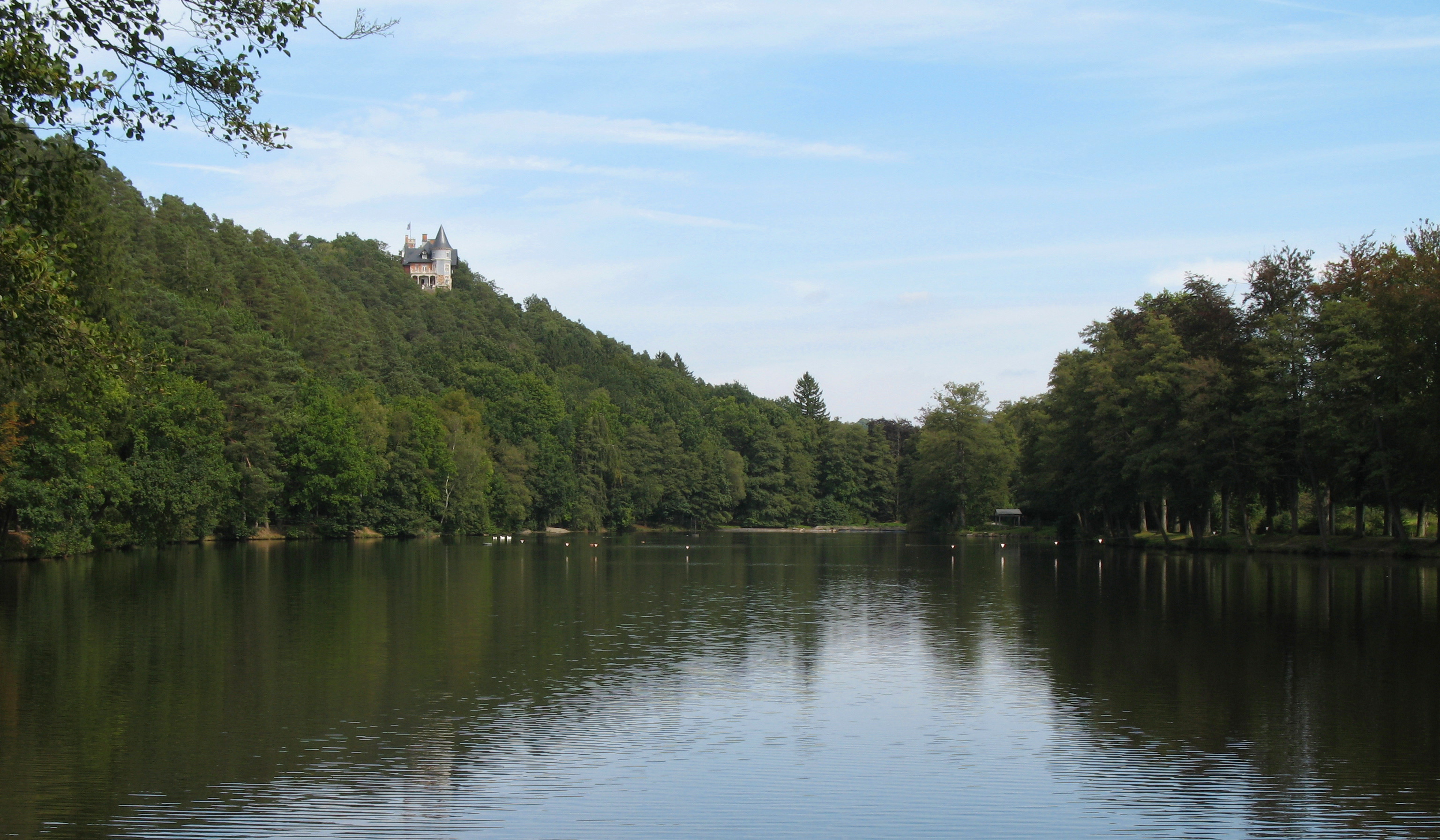 Spa (Belgium): the Warfaaz pond